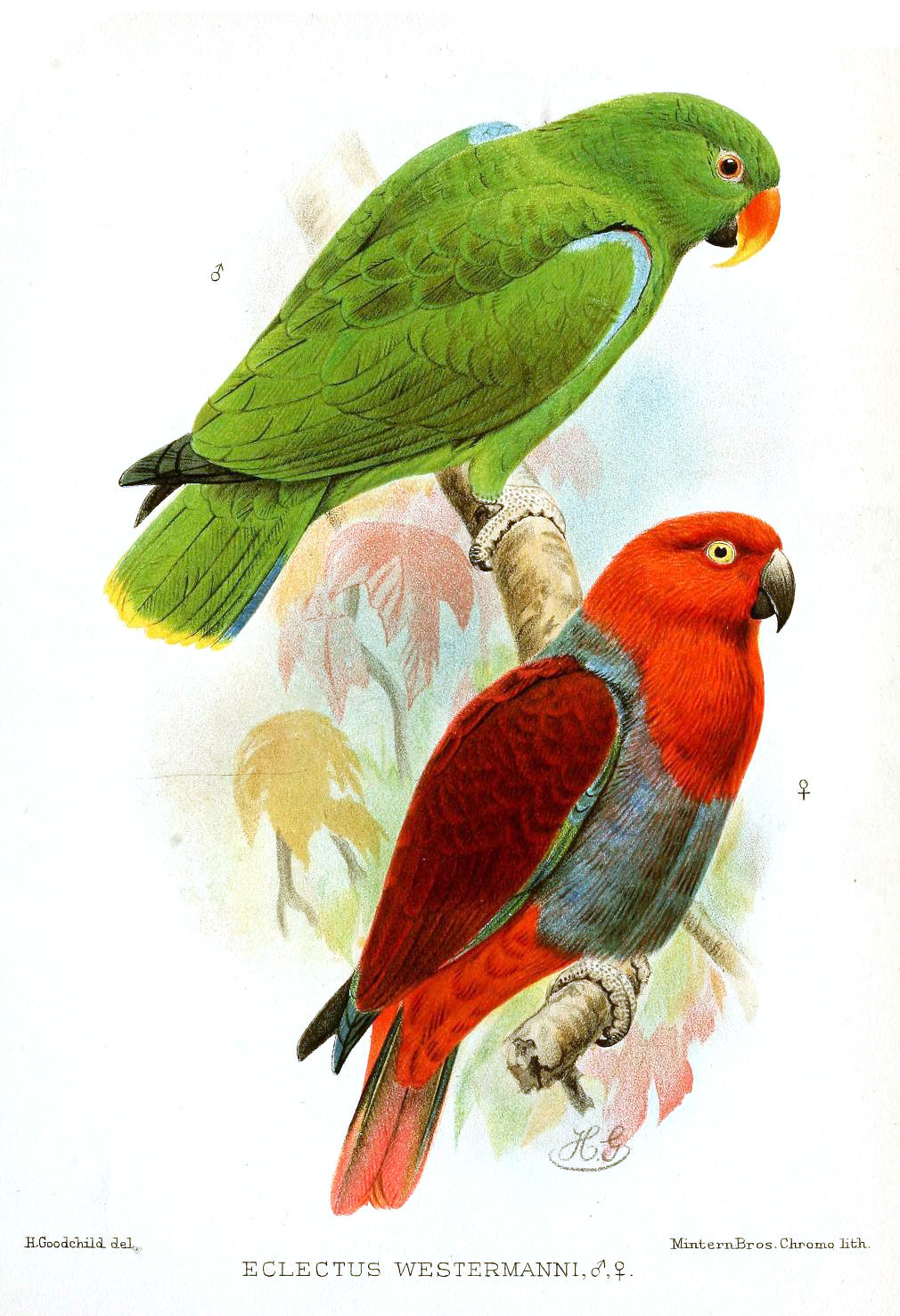 Westerman's Eclectus Parrot (Eclectus westermanni) from the Proceedings of the Zoological Society (PZS) 1902